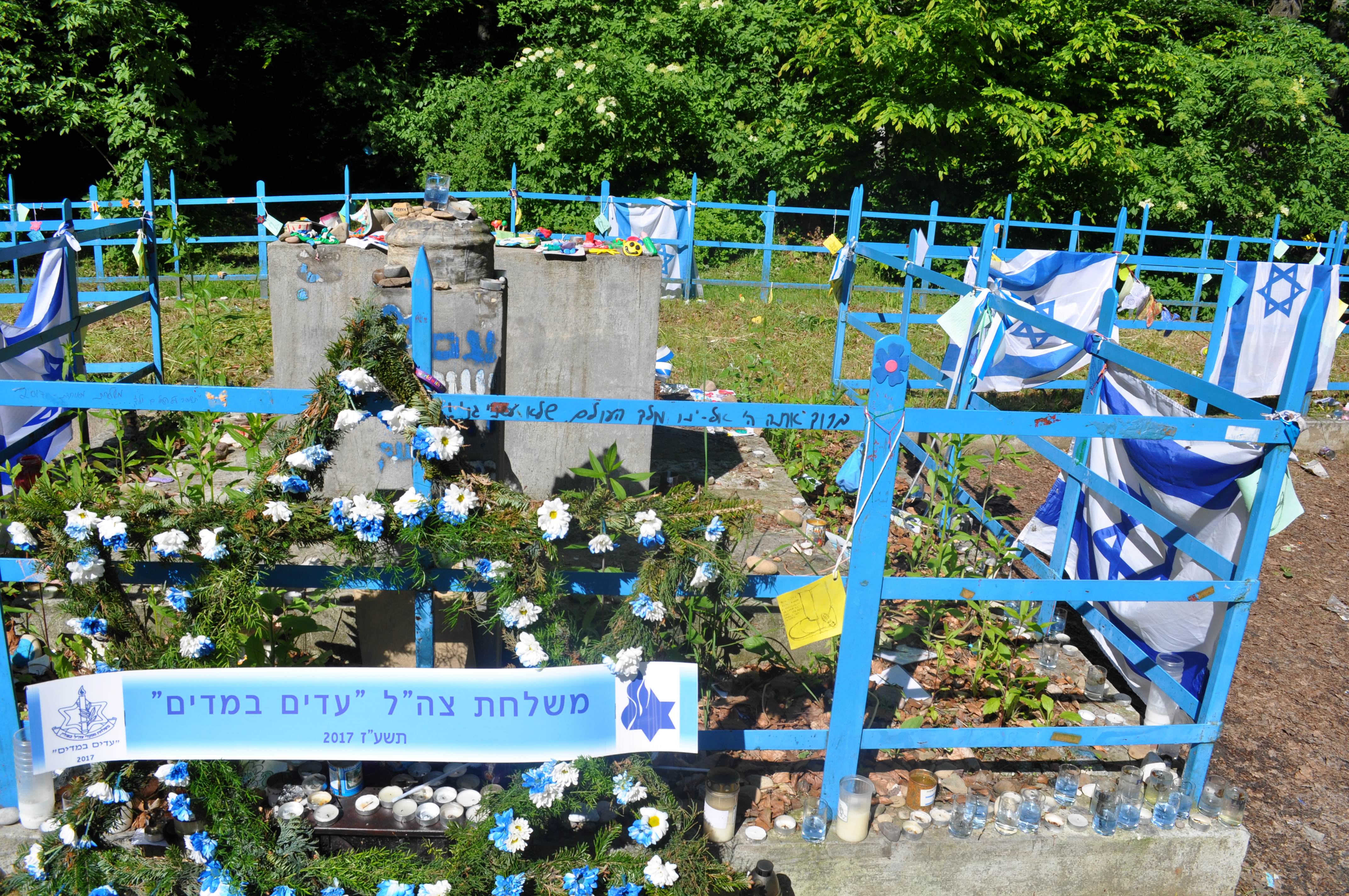 Buczyna Forest at Zbylitowska Gora. Poland. World War II cementery of Jews and Poles, German victims.